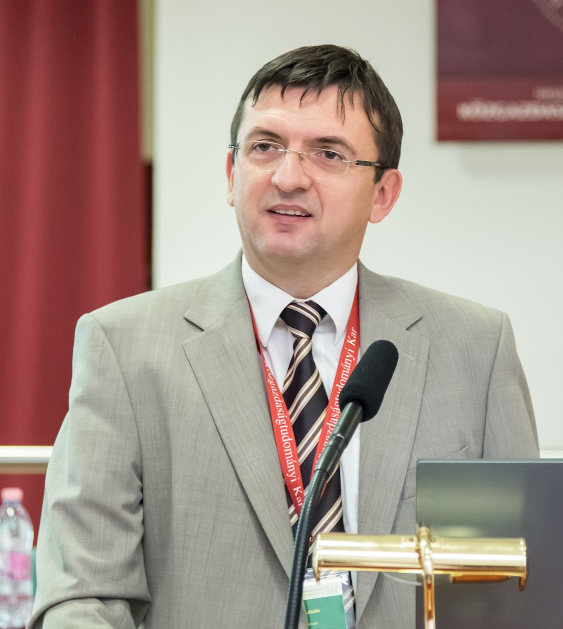 László Domokos, President of The State Audito Office of Hungary.